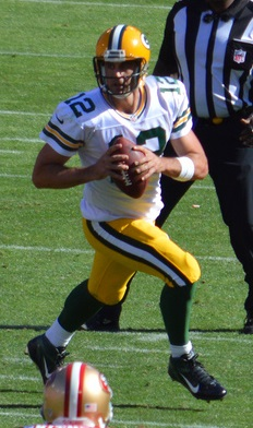 Aaron Rodgers vs. San Francisco 49ers in september 2013.